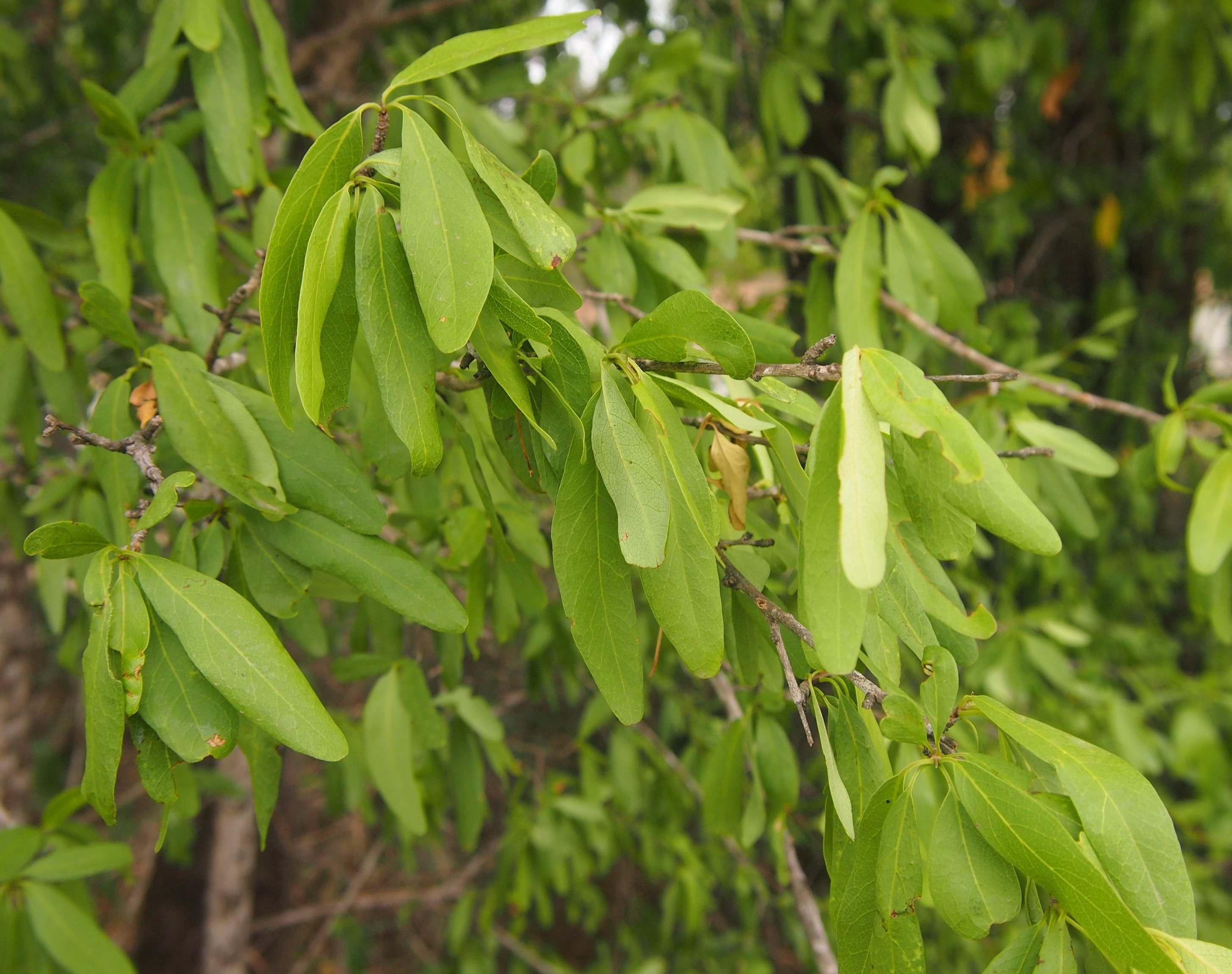 Terminalia oblongata foliage